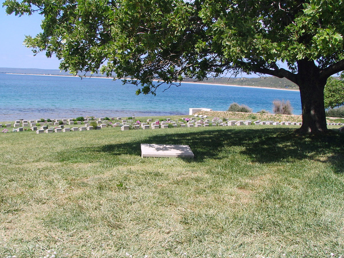 Graves at Anzac Cove